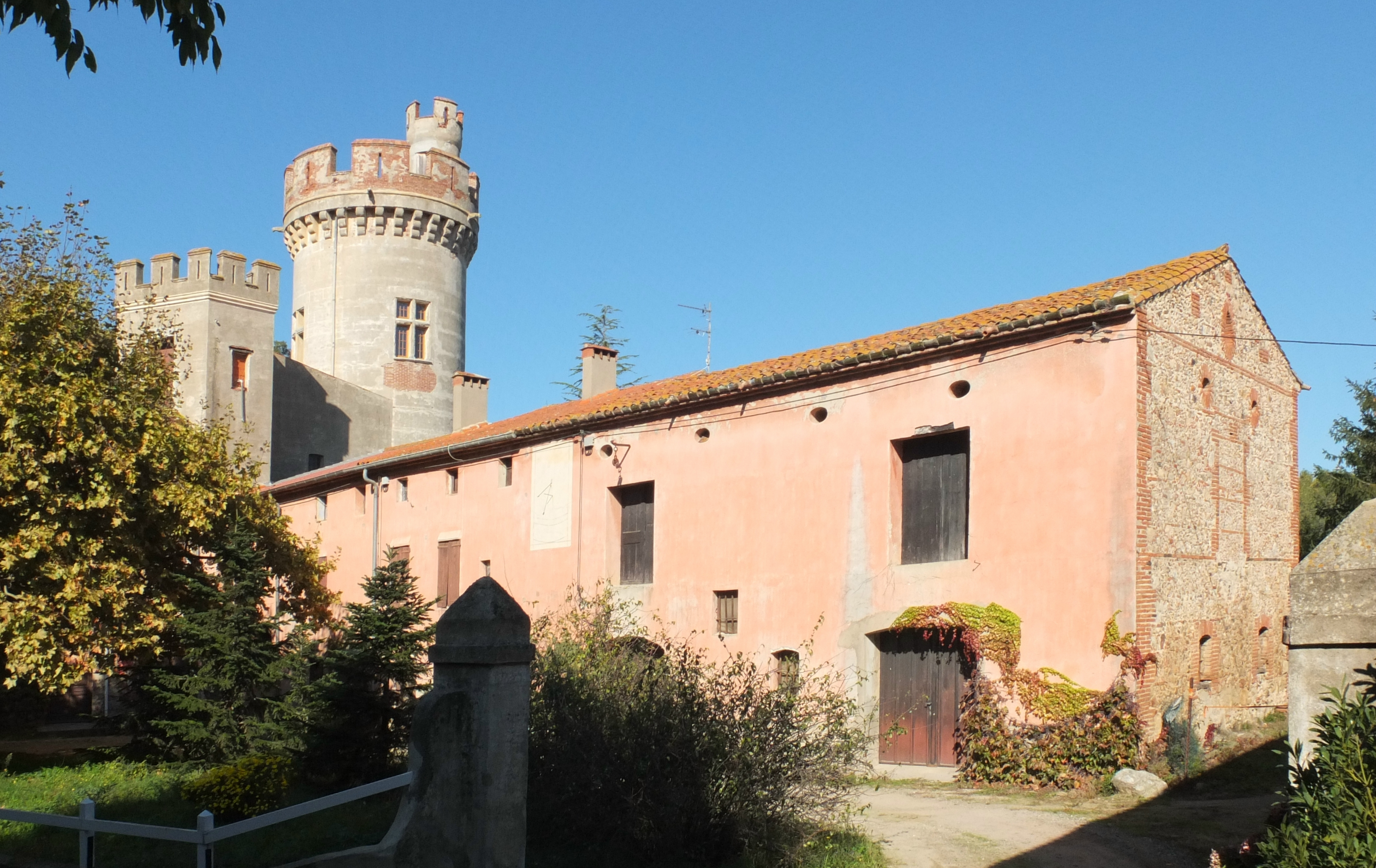 Taxo-d'Amont is an ancient hamlet which in former centuries belonged to the parish of Taxo-d'Avall, today it belongs to Saint-André, (view E).